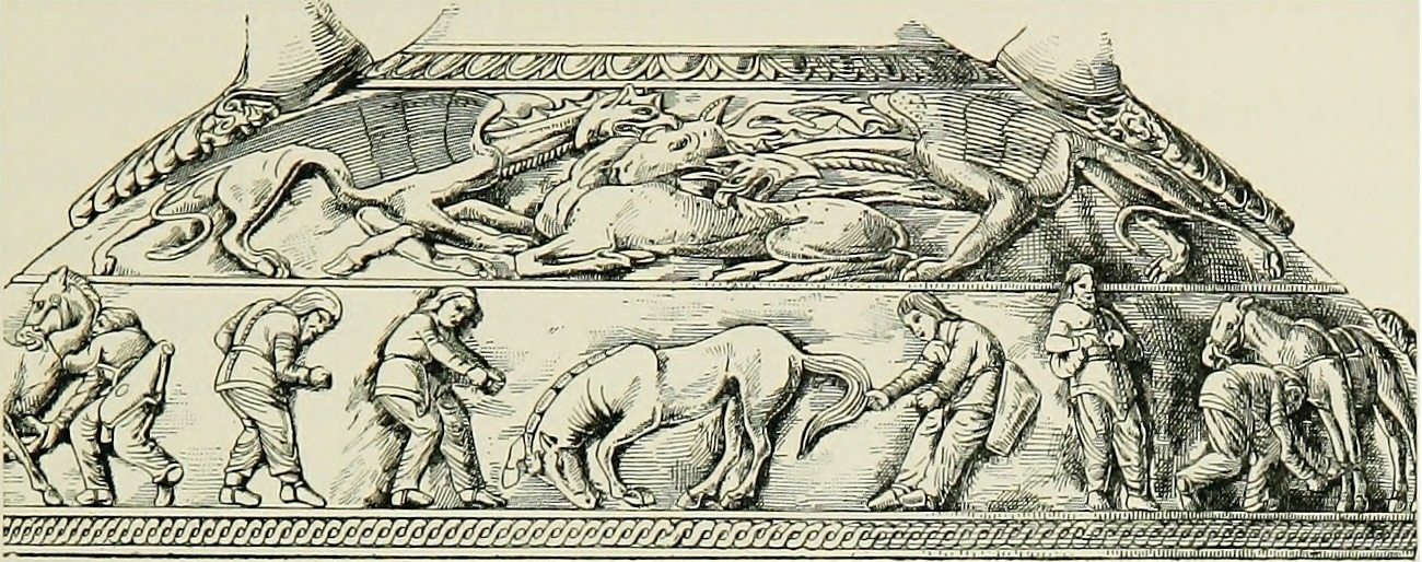 Nikopol Amphora. Place: Russia (now Ukraine). Period: Early Iron Age. Date: Scythian Culture. 4th century BC. Place of finding: Chertomlyk Barrow. Archaeological site: Dnieper Area, near Nikopol. Material: silver Title: History of Egypt, Chaldea, Syria, Babylonia and Assyria Year: 1903 (1900s) Authors: Maspero, G. (Gaston), 1846-1916 Sayce, A. H. (Archibald Henry), 1845-1933 McClure, M. L., d. 1918 Subjects: Civilization, Ancient History, Ancient Publisher: London : Grolier Society Text Appearing Before Image: ' Text Appearing After Image: SCYTHIAITS LASSOING HOKSES. CHAPTER III THE MEDES AND THE SECOND CHALD/CAN EMPIRE The fall of Nineveh and the rise of the Chaldsean and Median empires—TheXXVI Egyptian dynasty : Cyaxares, Alyattes, and Nebuchadrezzar. rpHE East was ever a land of kaleido-scopic changes and startling dramaticincidents. An Oriental empire, evenwhen built up by strong hands andwatched over with constant vigilance,scarcely ever falls to pieces in the slowand gradual process of decay arisingfrom the ties that bind it together becom-ing relaxed or its constituent elementsgrowing antiquated. It perishes, as a rule,in a cataclysm; its ruin comes like a bolt 1 Drawn by Faucher-Grudin, from the silver vase of Tchertomlitsk, nowin the museum of the Hermitage. The vignette is also drawn by Faucher-Gudin, and represents an Egyptian torso in the Turin museum ; the cartouchewhich is seen upon the arm is that of Psammetichus I.